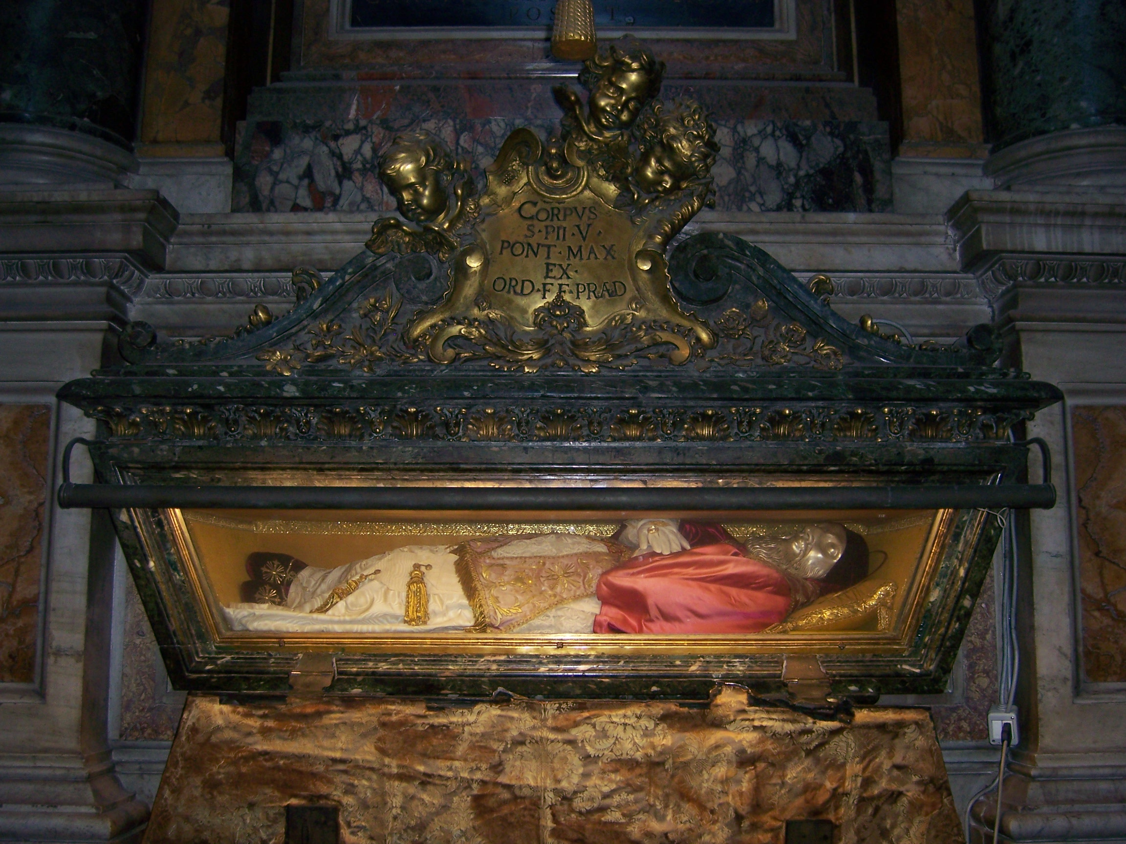 Saint Pius V in Rome.